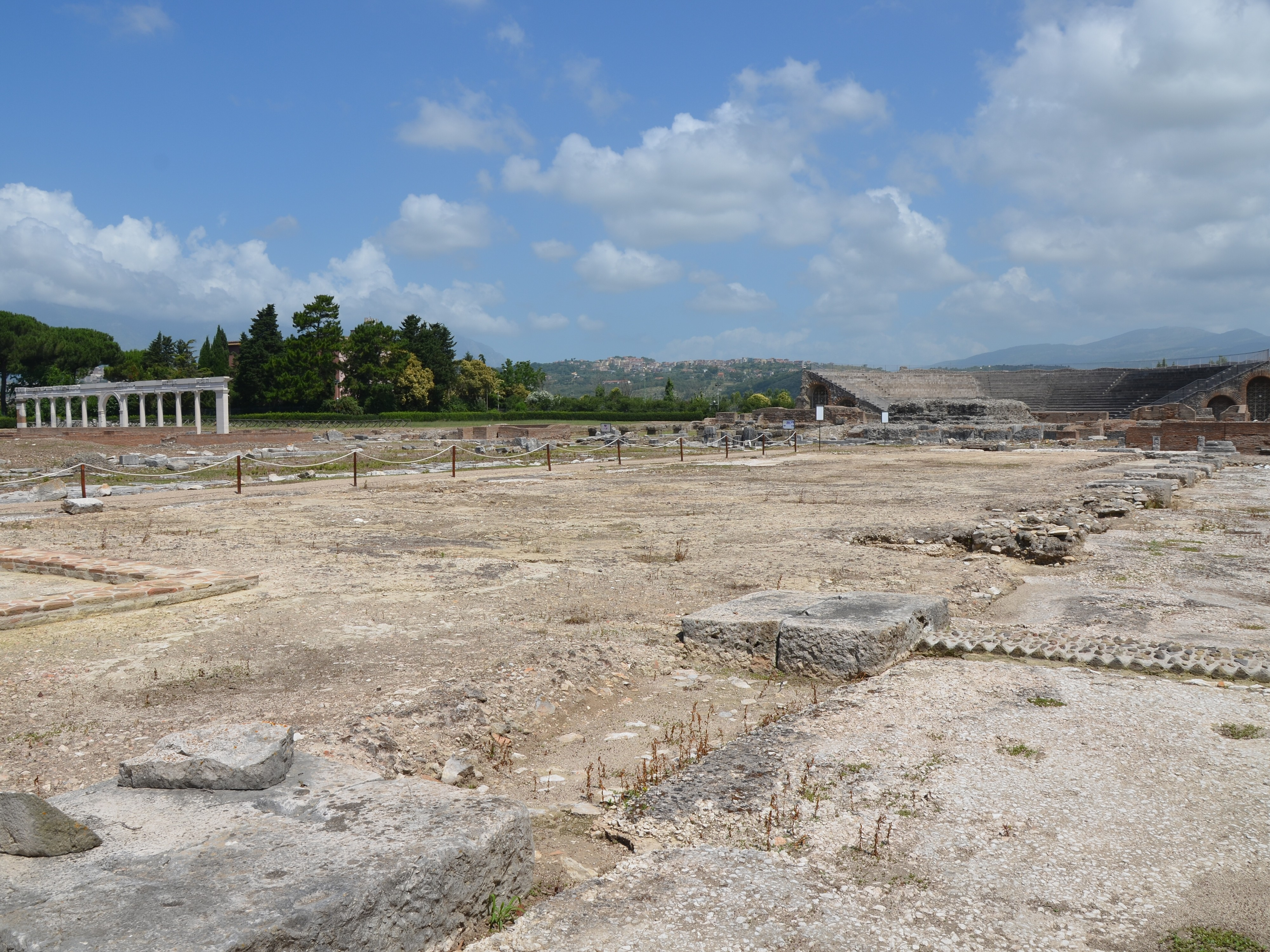 The ruins of the Hadrianic Basilica of the Imperial forum, Minturnae, Minturno, Italy